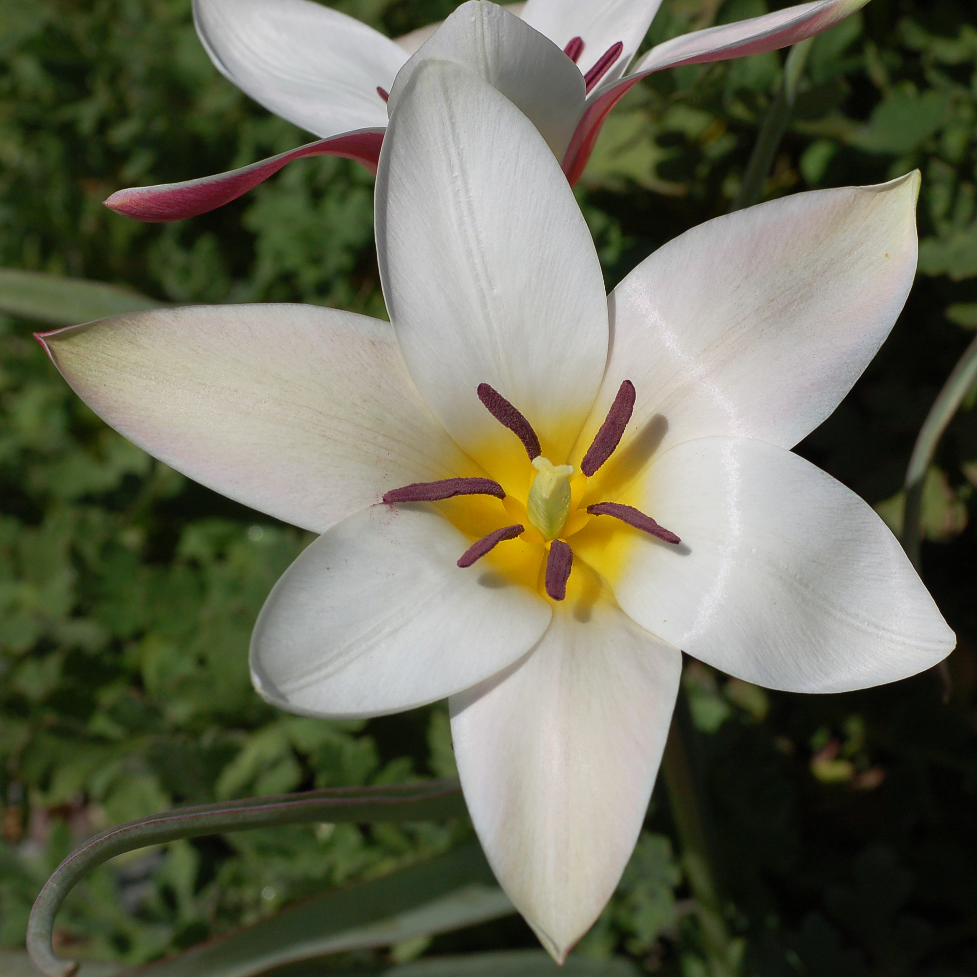 A picture of the Tulipen (Tulipa clusiana en 'Lady Jane') flower. Photo taken in the Rock Ledge at the Chanticleer Garden where it was identified.